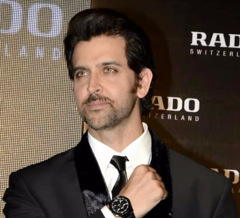 Hrithik Roshan at the launch of the Rado HyperChrome collection in India